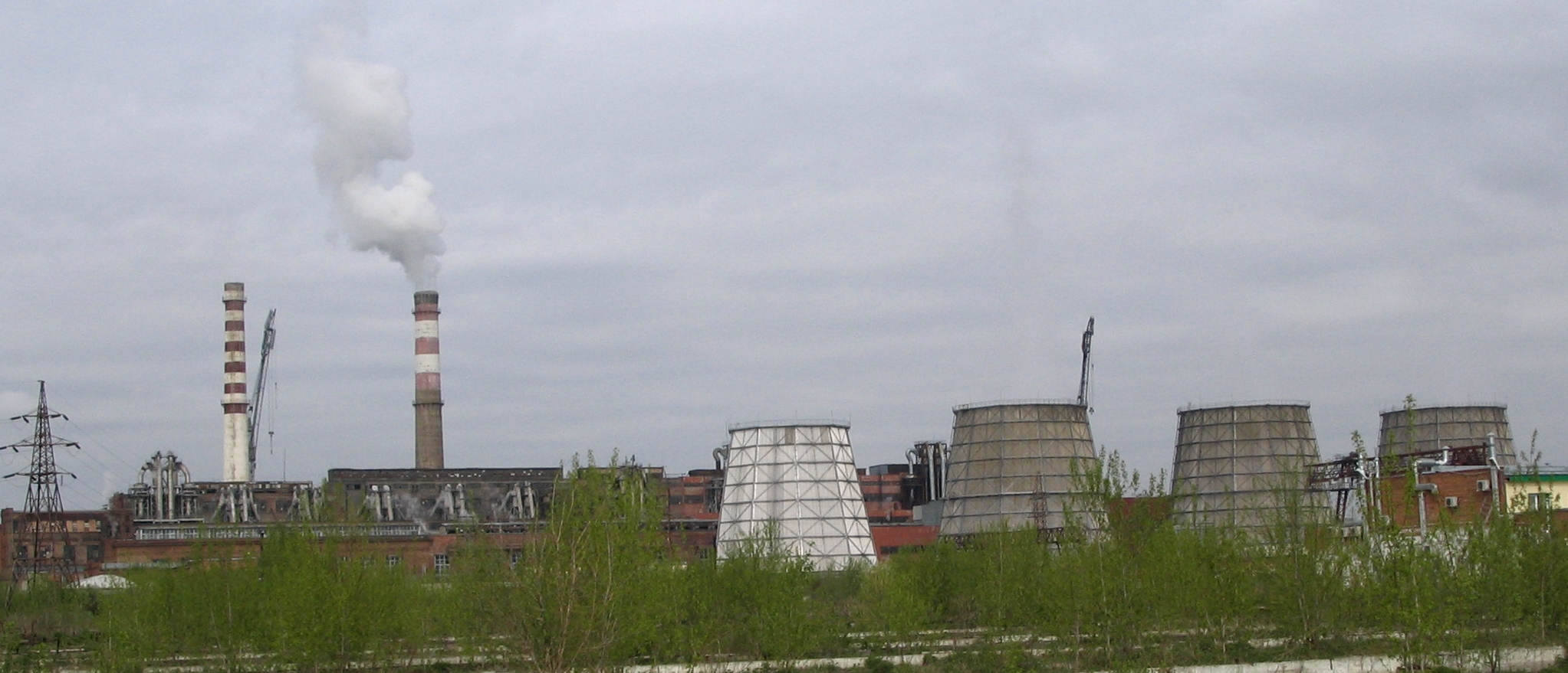 Tomsk GRES-2 power plant